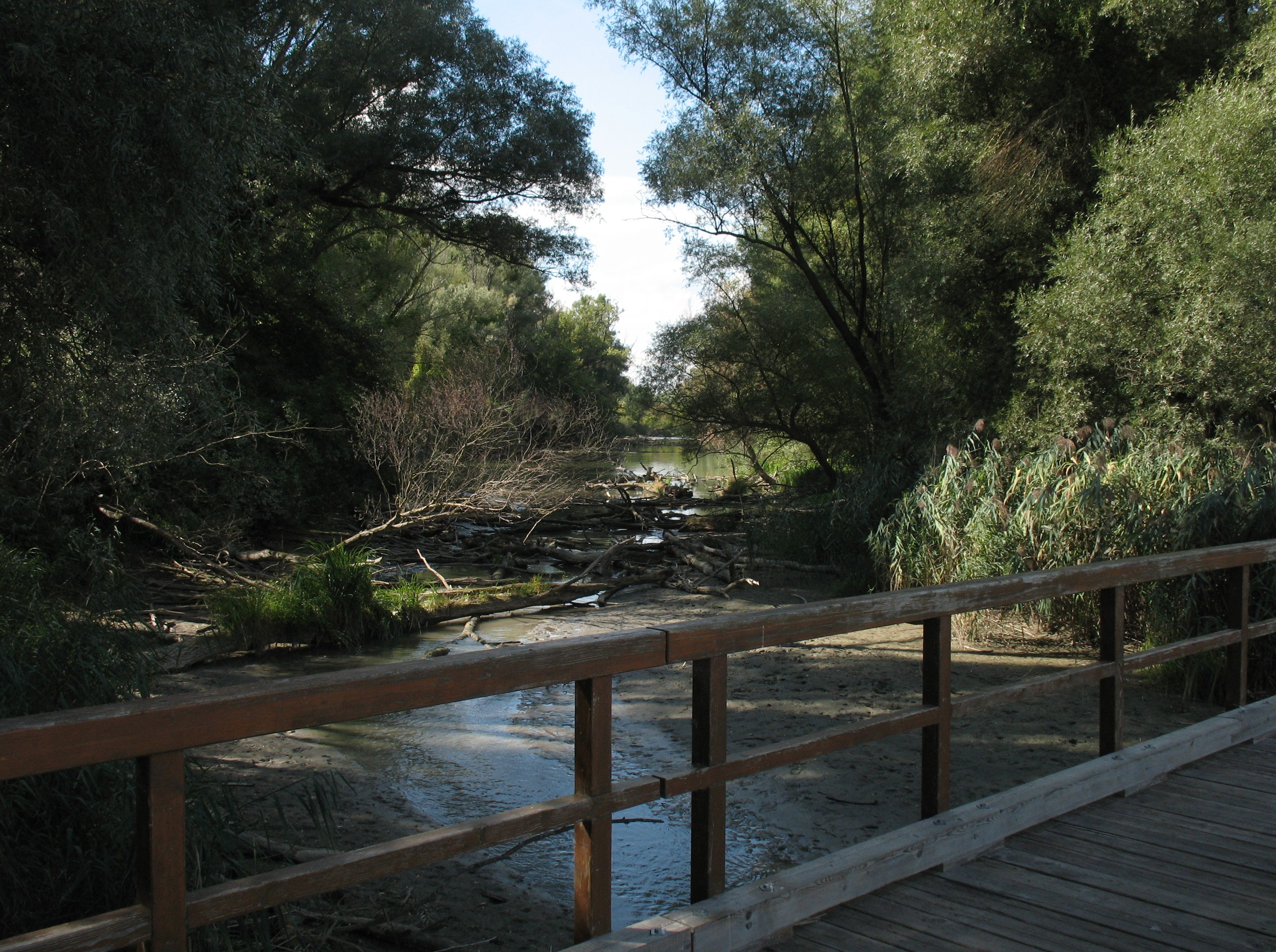 Floodplain "Toter Grund" in Vienna, Austria